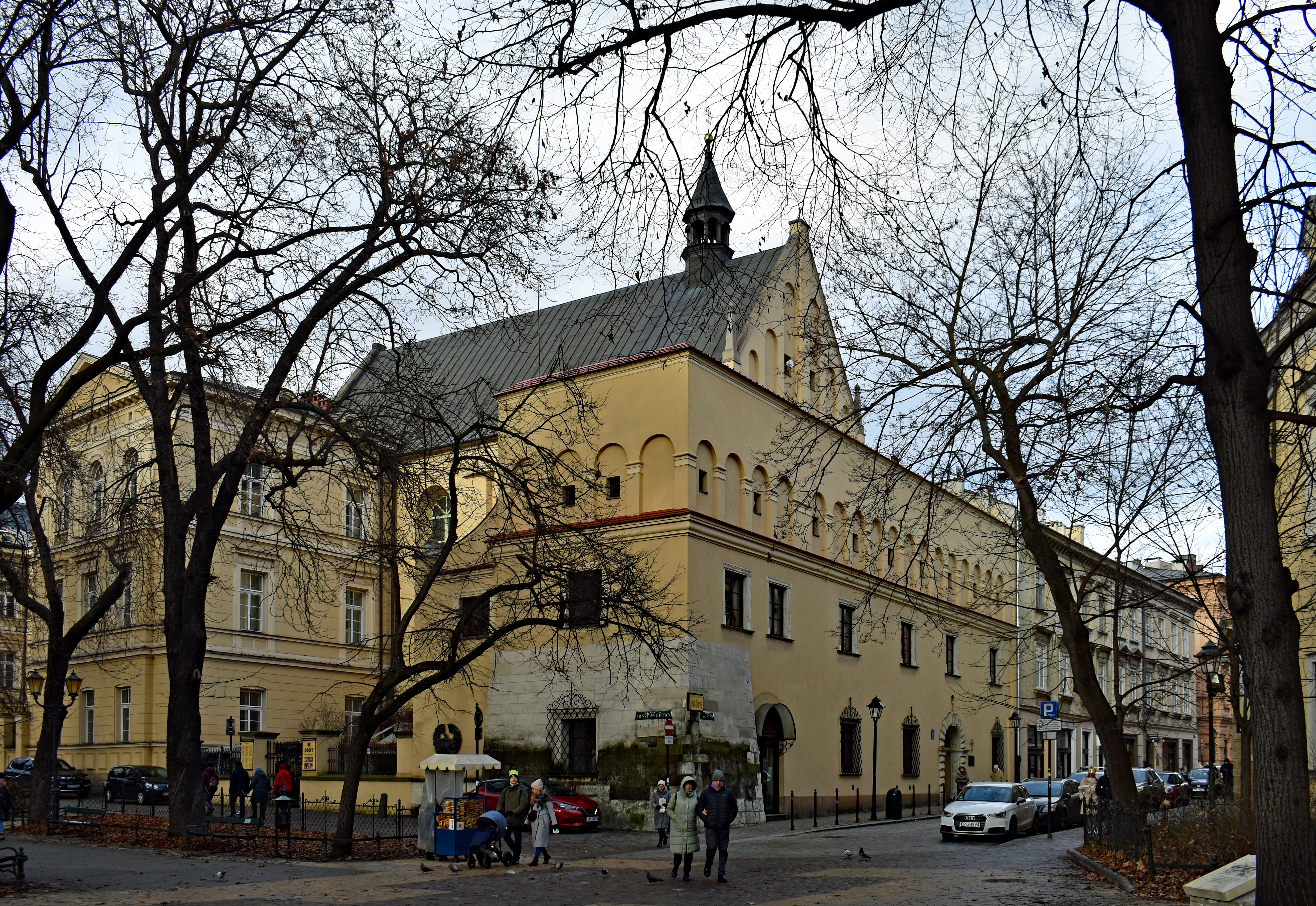 Greek Catholic Church of St.Norbert, 11 Wislna street,Old Town, Krakow, Poland